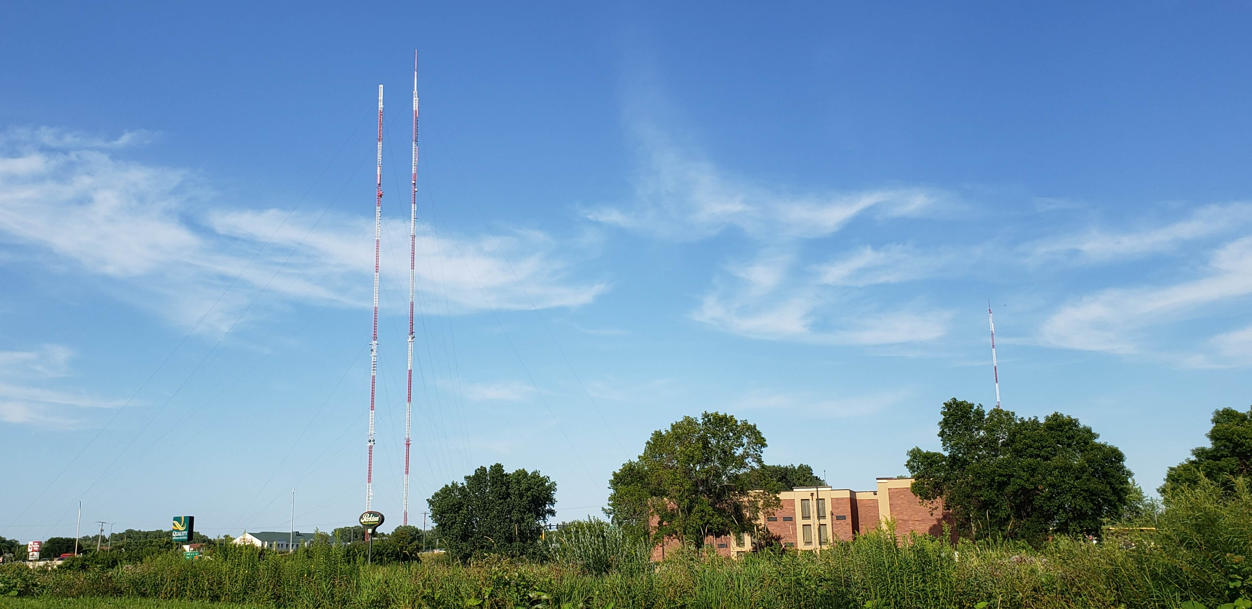 Broadcast tower in Shoreview, Minnesota carrying a majority of Minneapolis/St. Paul area FM and TV stations. The telefarm complex is at left with the KMSP tower right. This is a picture of the telefarm complex after the very top portion of the left tower was removed. It was taken west of the towers from a parking lot, looking east.